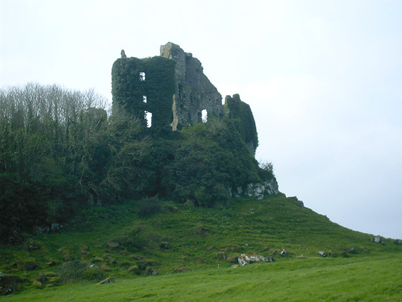 Carrigogunnell Castle is situated 3 km north of Clarina Village, Limerick, Ireland. It was built circa 1450 and was destroyed by gunpowder in 1691.